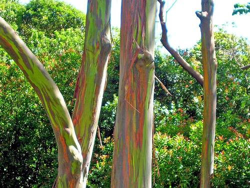 A grove of Rainbow Eucalyptus Eucalyptus deglupta trees, planted along the hana highway, Hawaii.